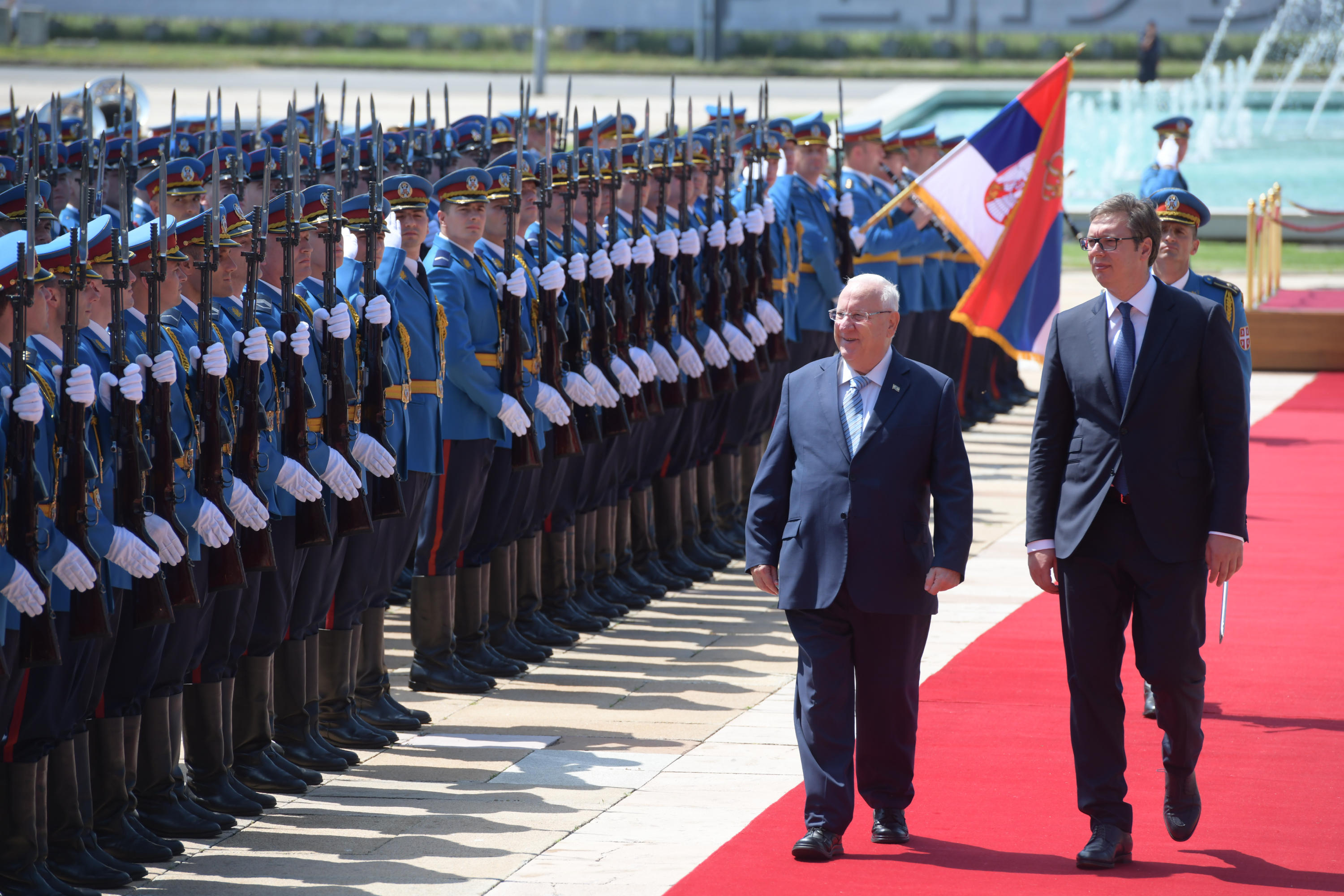 The President of Israel, Reuven Rivlin, is received at a state reception at the presidential palace by Serbian President, Aleksandar Vučić. Thursday, July 26, 2018. Photo credit: Amos Ben Gershom / GPO.